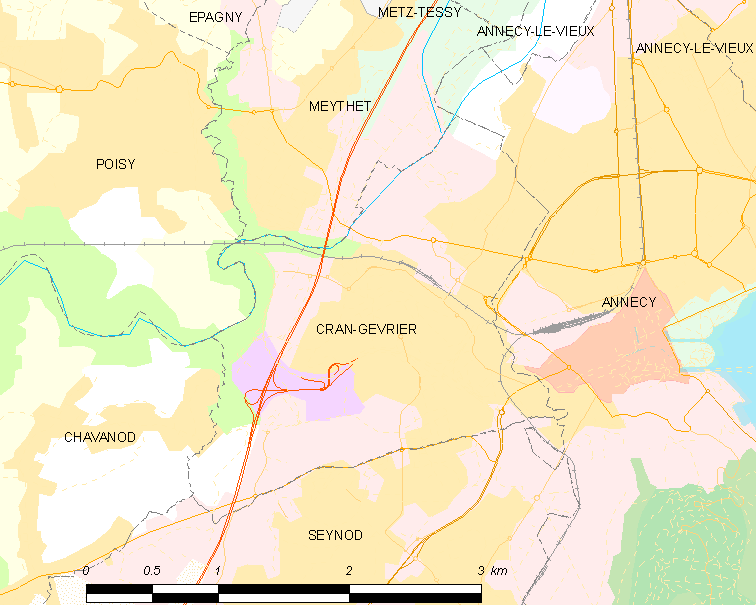 Map of French municipality Cran-Gevrier